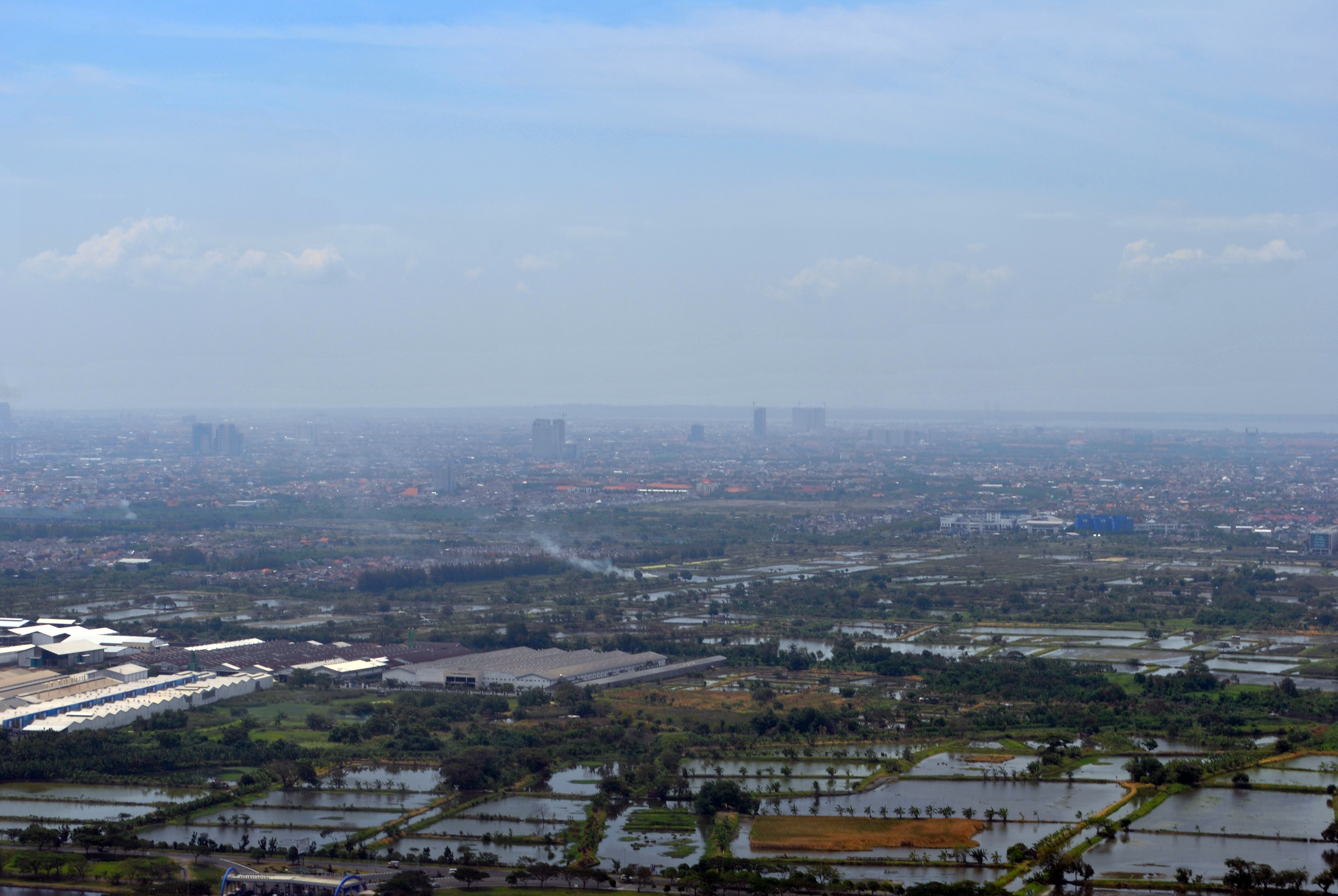 Sunrise Surabaya, Grassland View from Petra Christian University - Anta Car Station